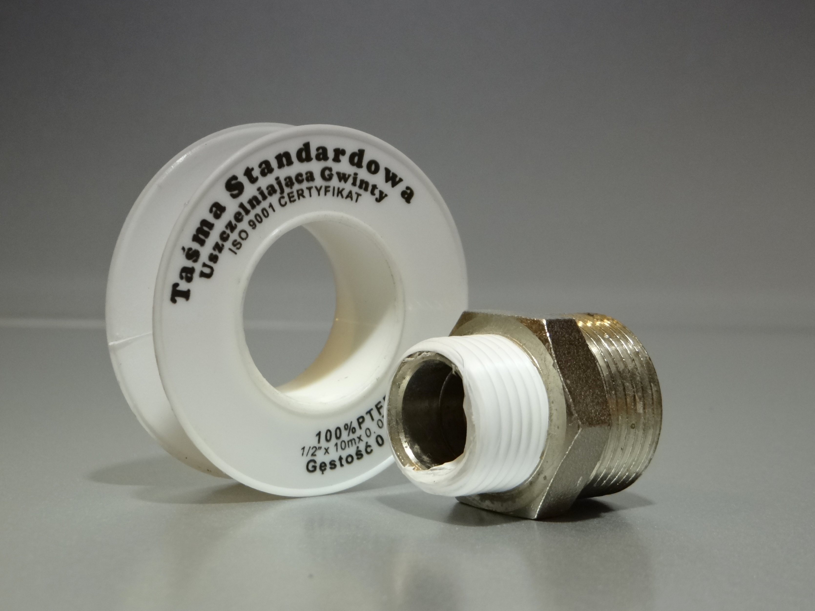 Seal teflon tape